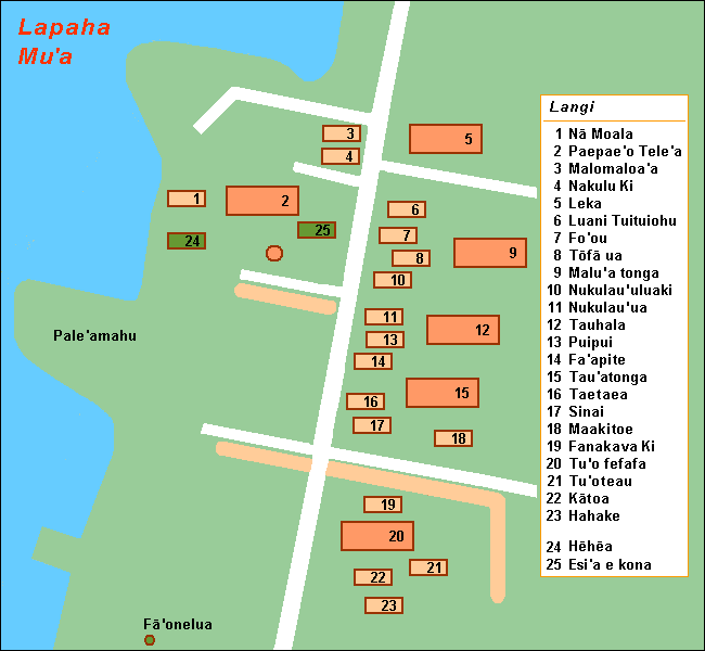 Map of Lapaha historical site Tonga, own work composed from various mapreferences